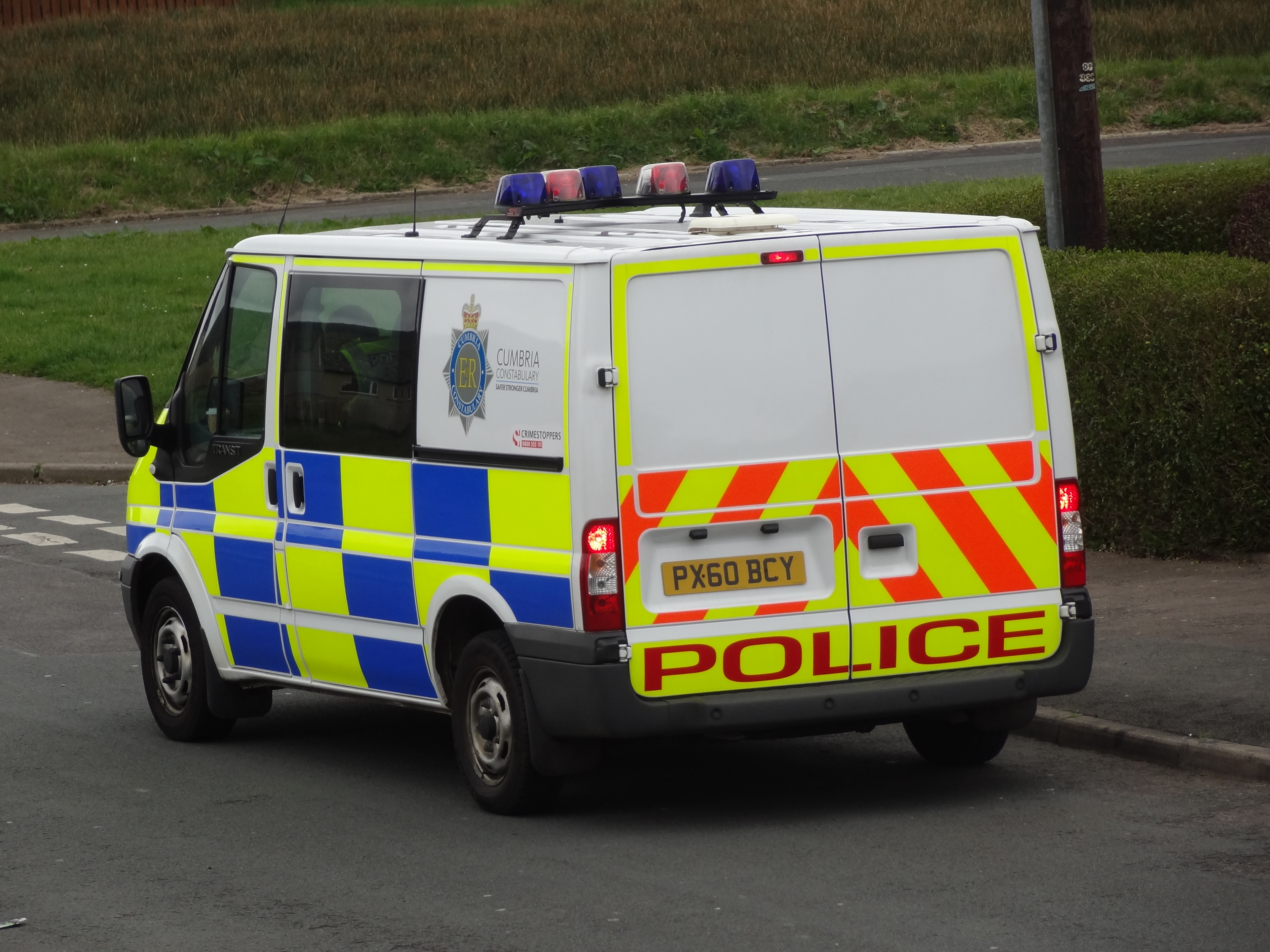 Cumbria police van1